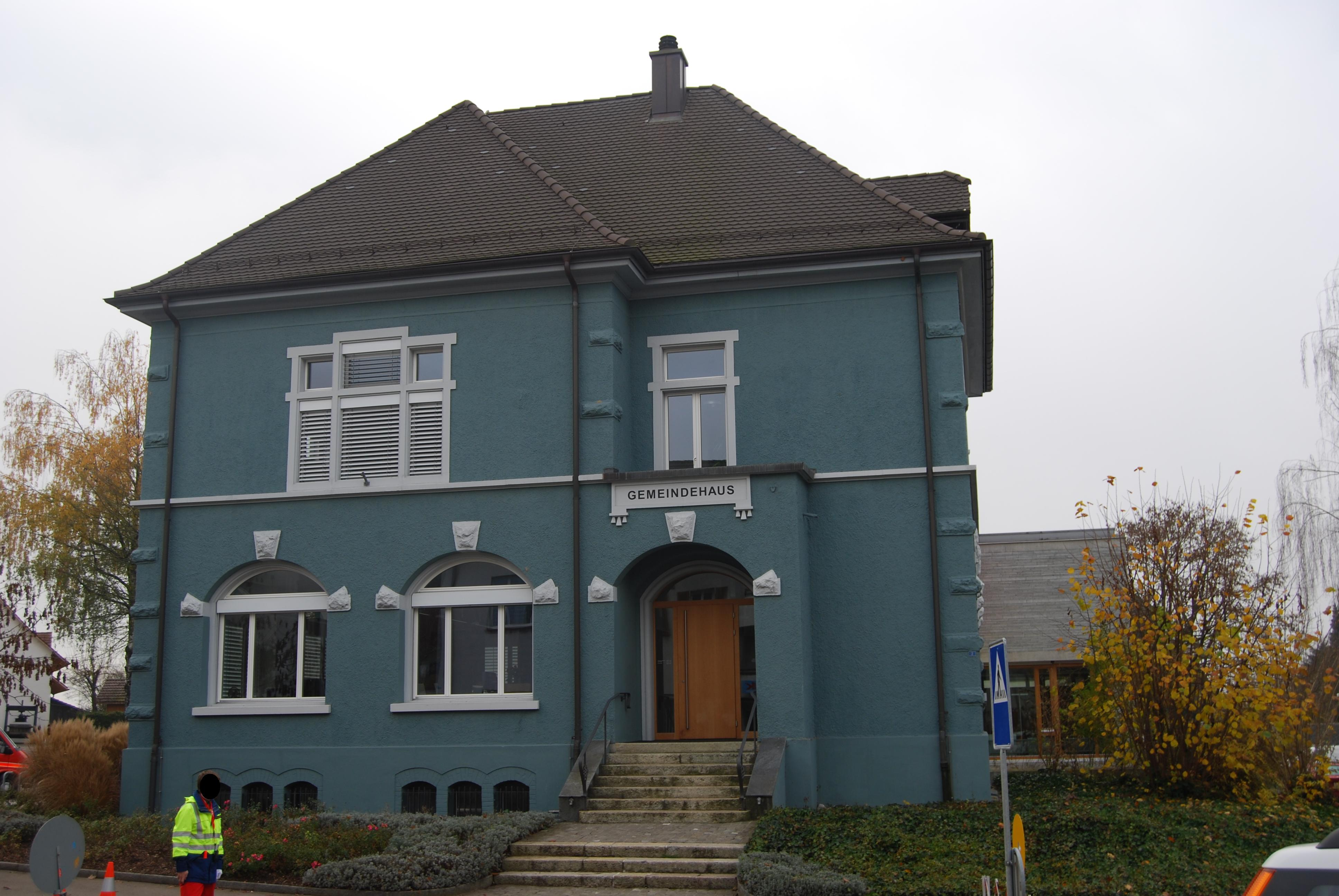 Municipality of Oberrohrdorf, canton of Aargau, SwitzerlandEsperanto: Komunuma domo de Oberrohrdorf, Kantono Argovio, Svislando